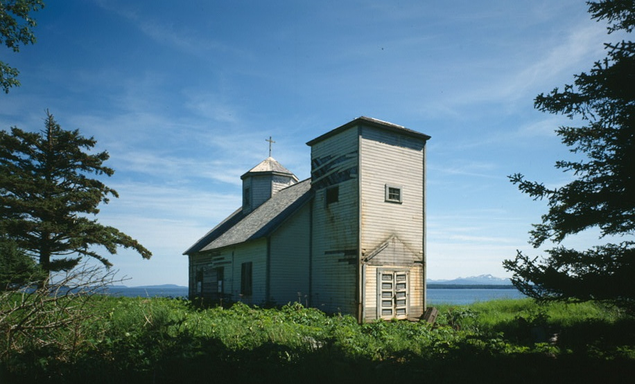 Nativity of the Holy Theolokos Church, Afognak, Alaska.